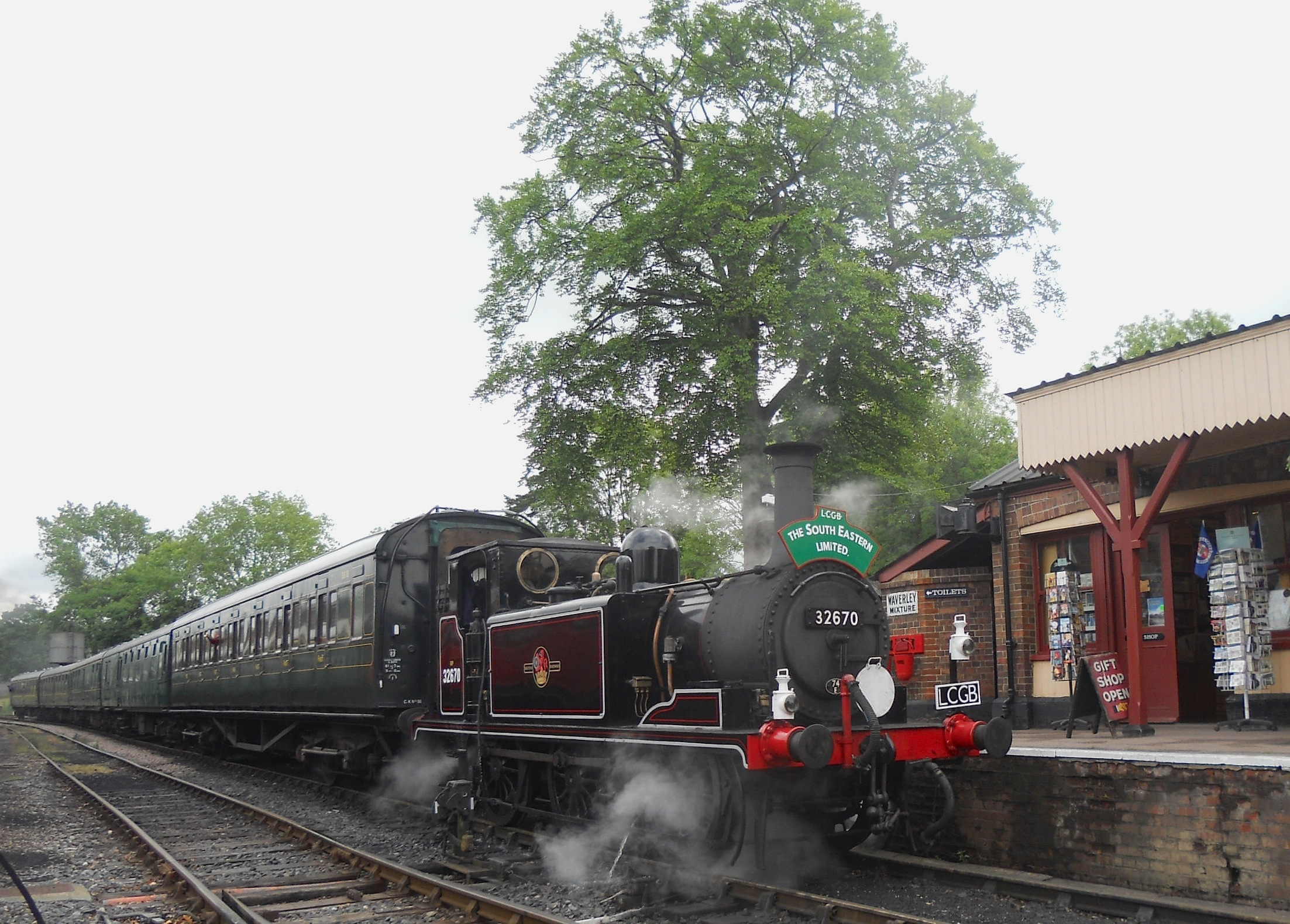 British Railways 0-6-0T Class A1X/Terrier No. 32670 and its train are seen at Tenterden Town on the Kent and East Sussex Railway